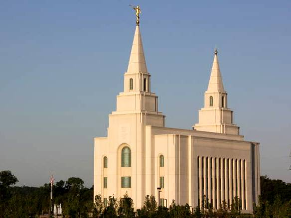 Photo of the Kansas City Missouri Temple, the 137th operating temple of The Church of Jesus Christ of Latter-day Saints (LDS Church), located in the Greater Kansas City area.